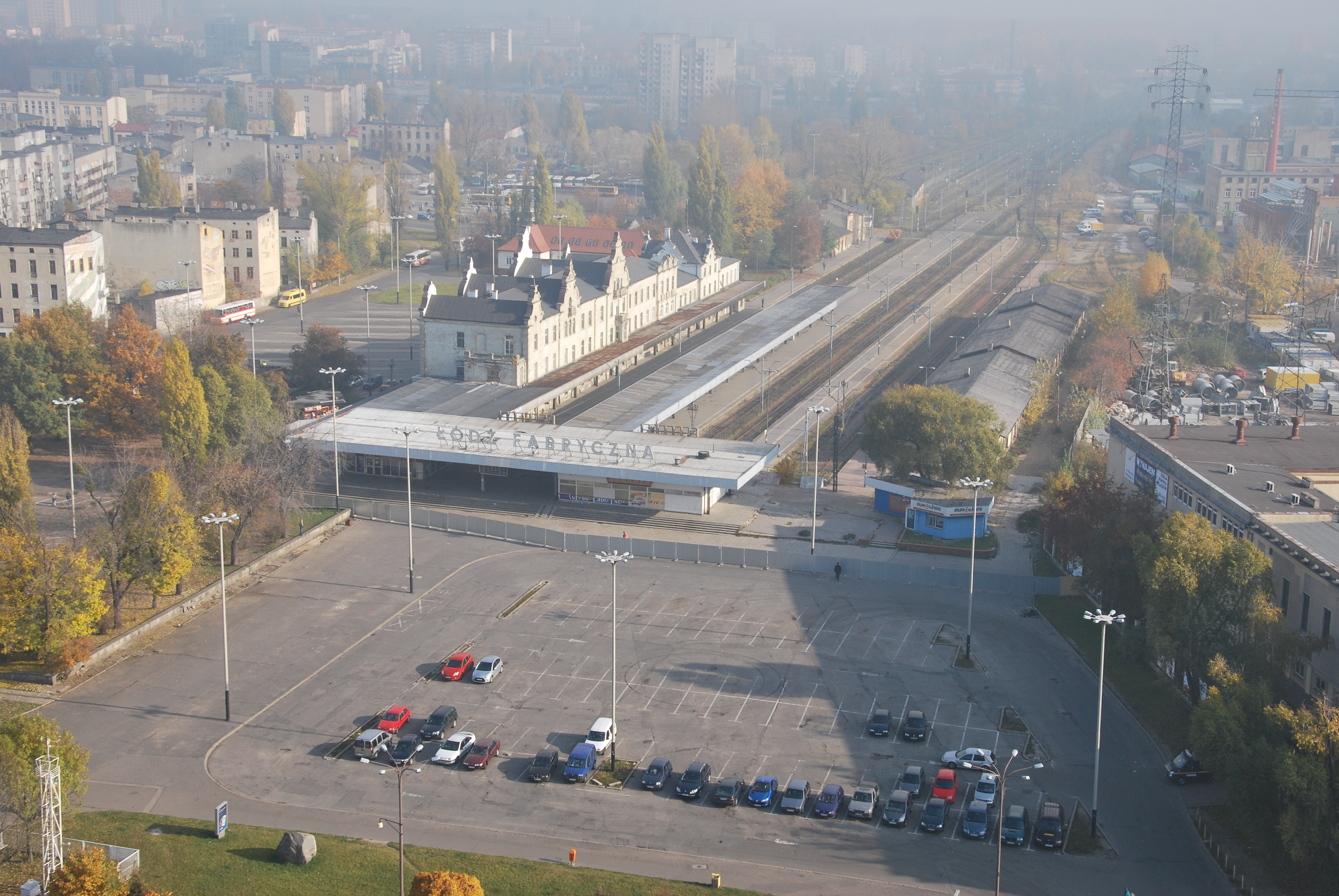 Łódź Fabryczna at the start of renovation, November 2011